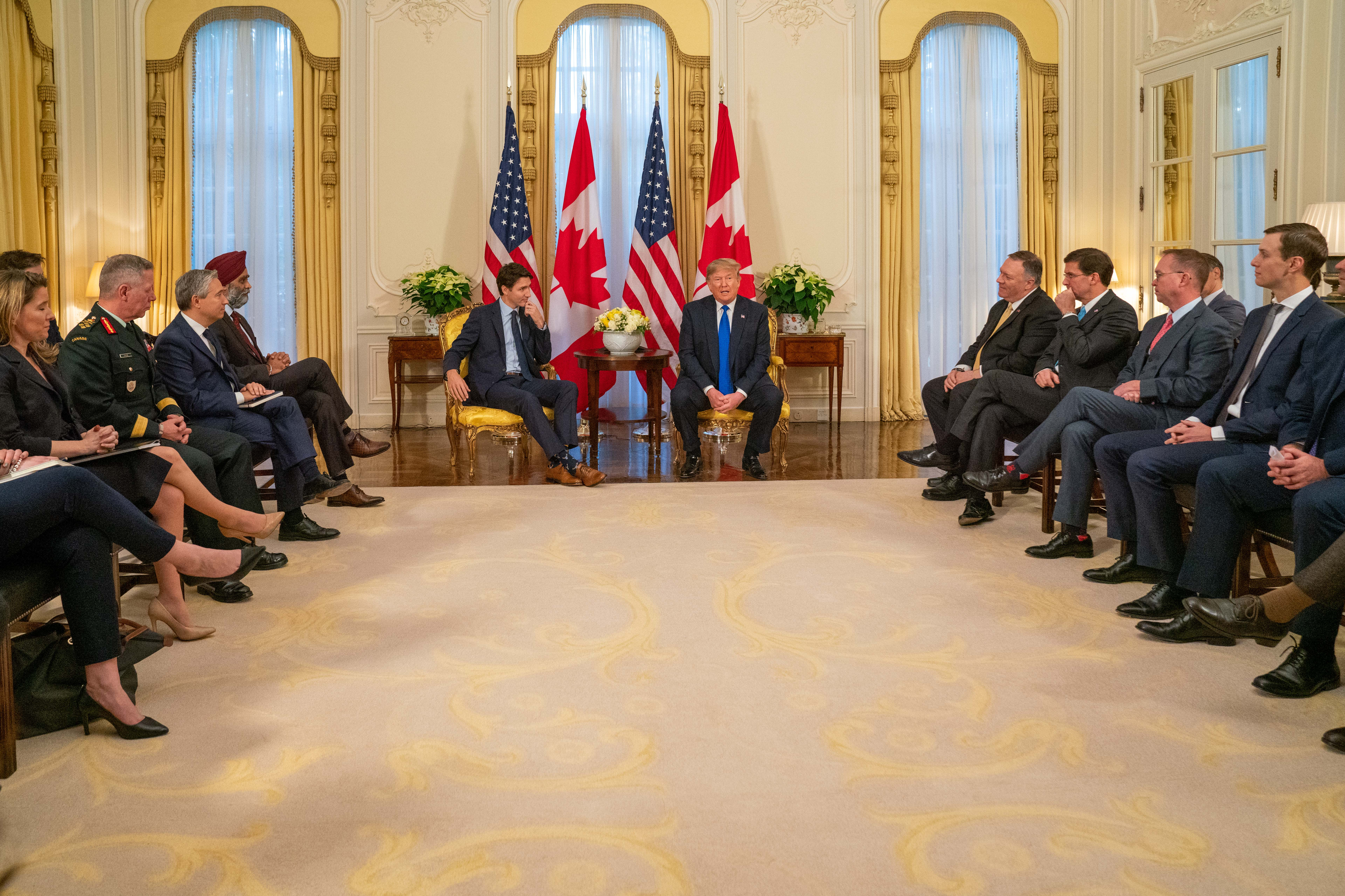 President Donald J. Trump meets with Canadian Prime Minister Justin Trudeau in London, England, on December 3, 2019. [State Department Photo by Ron Przysucha/ Public Domain]